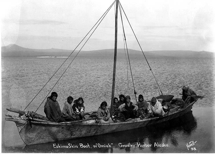 Caption on image: Eskimo Skin Boat, or Omiak, Grantley Harbor, Alaska. Nowell, 93 Subjects (LCTGM): Eskimos--Transportation--Alaska--Grantley Harbor; Eskimos--Clothing & dress--Alaska--Grantley Harbor; Fur garments; Group portraits Subjects (LCSH): Eskimos--Boats--Alaska--Grantley Harbor; Umiaks--Alaska--Grantley Harbor; Parkas--Alaska--Grantley Harbor